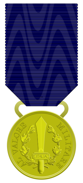 Medal of Military Valor 1943-1945